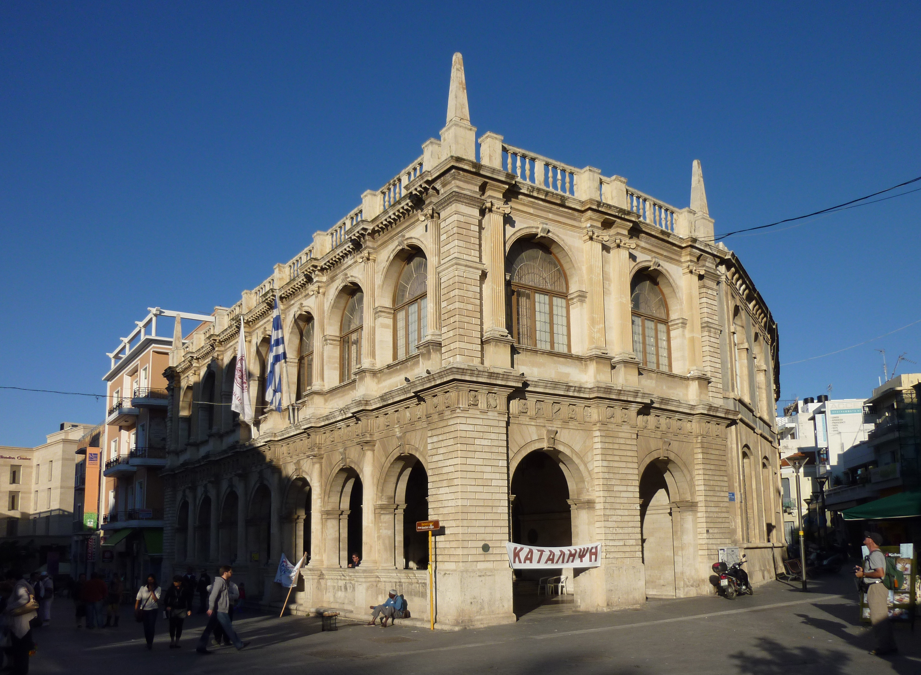 The Venetian Loggia in Heraklion, Crete, Greece